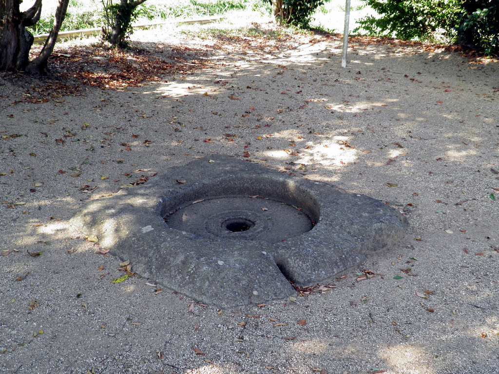 Kosedera temple tower in ruins